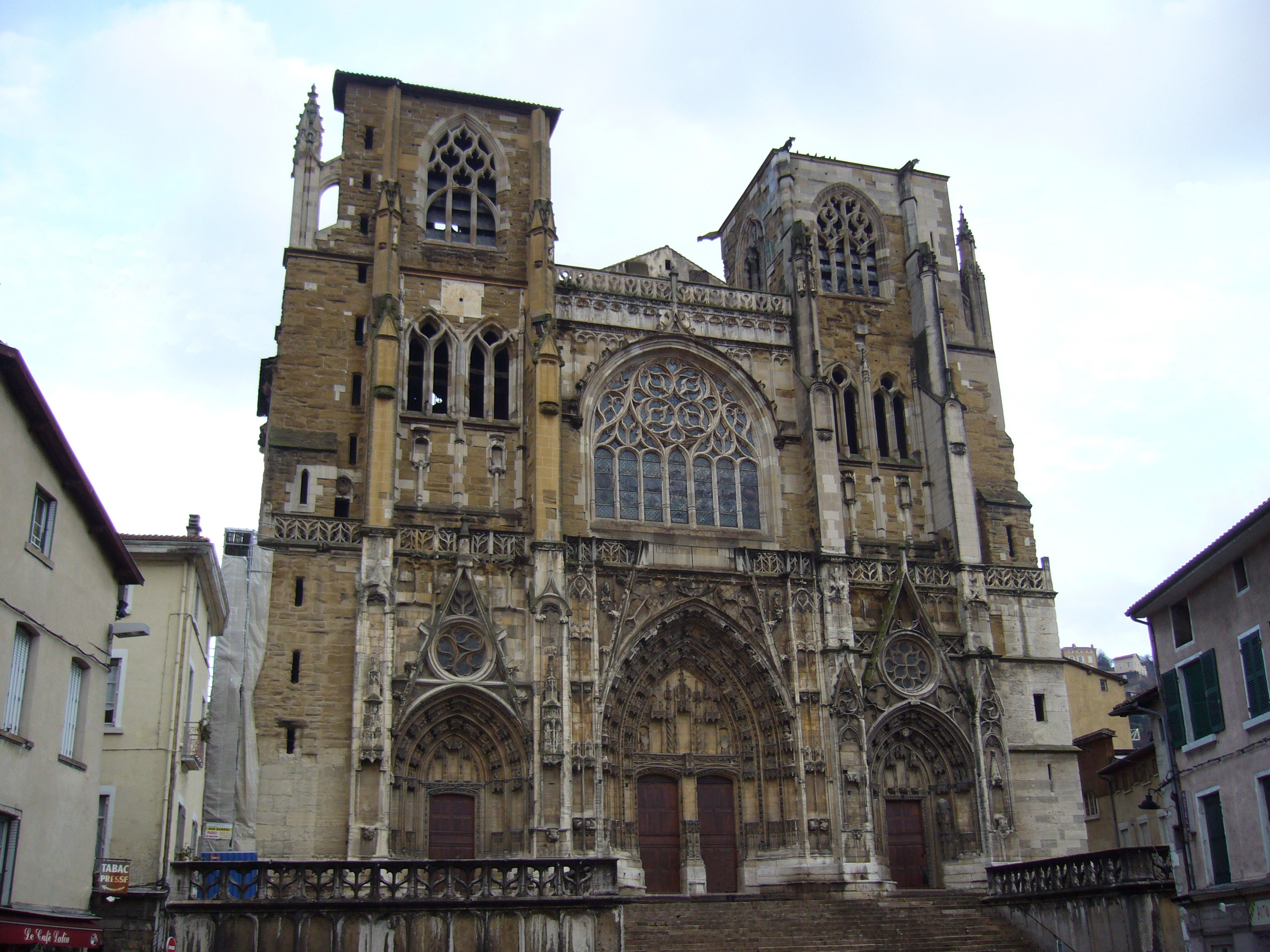 Saint-Maurice Cathedral, Vienne (Isère), France - 01/02/2006 - Photo Arnaud-Victor Monteux